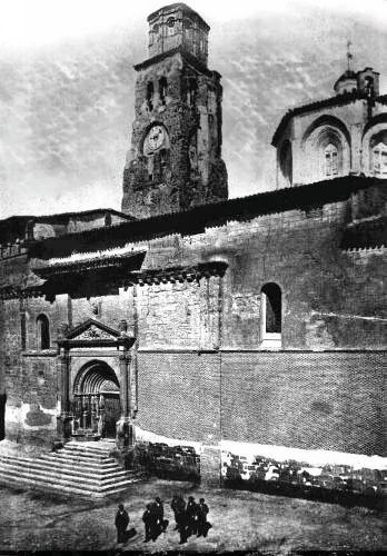 Old clock tower of Tamarite de Litera before it was covered with cement between 1923 and 1927. THe top part was removed because it was in danger of falling apart.